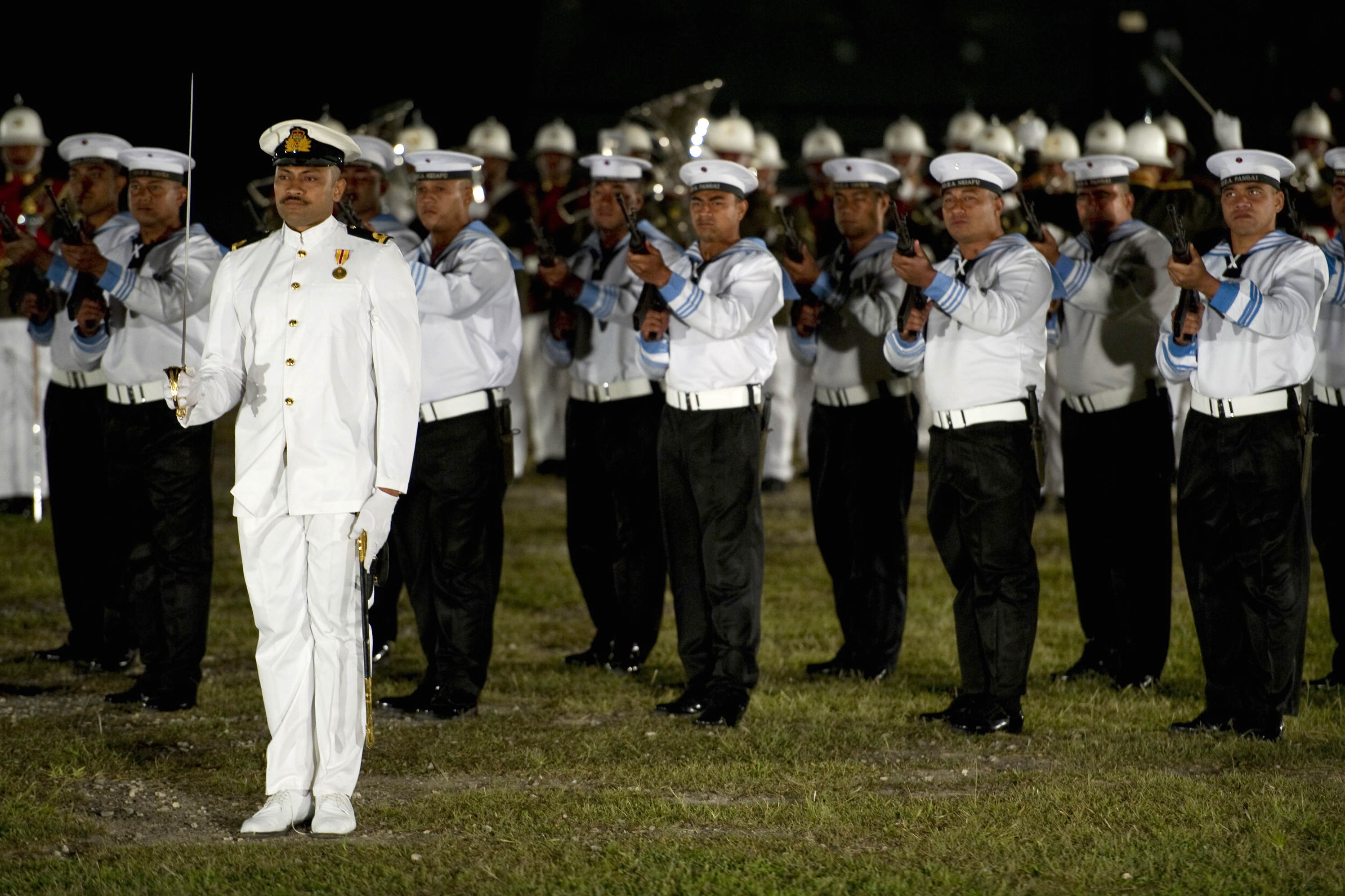 A naval honor guard welcomes U.S. Navy Adm. Mike Mullen, chairman of the Joint Chiefs of Staff, to Tonga.